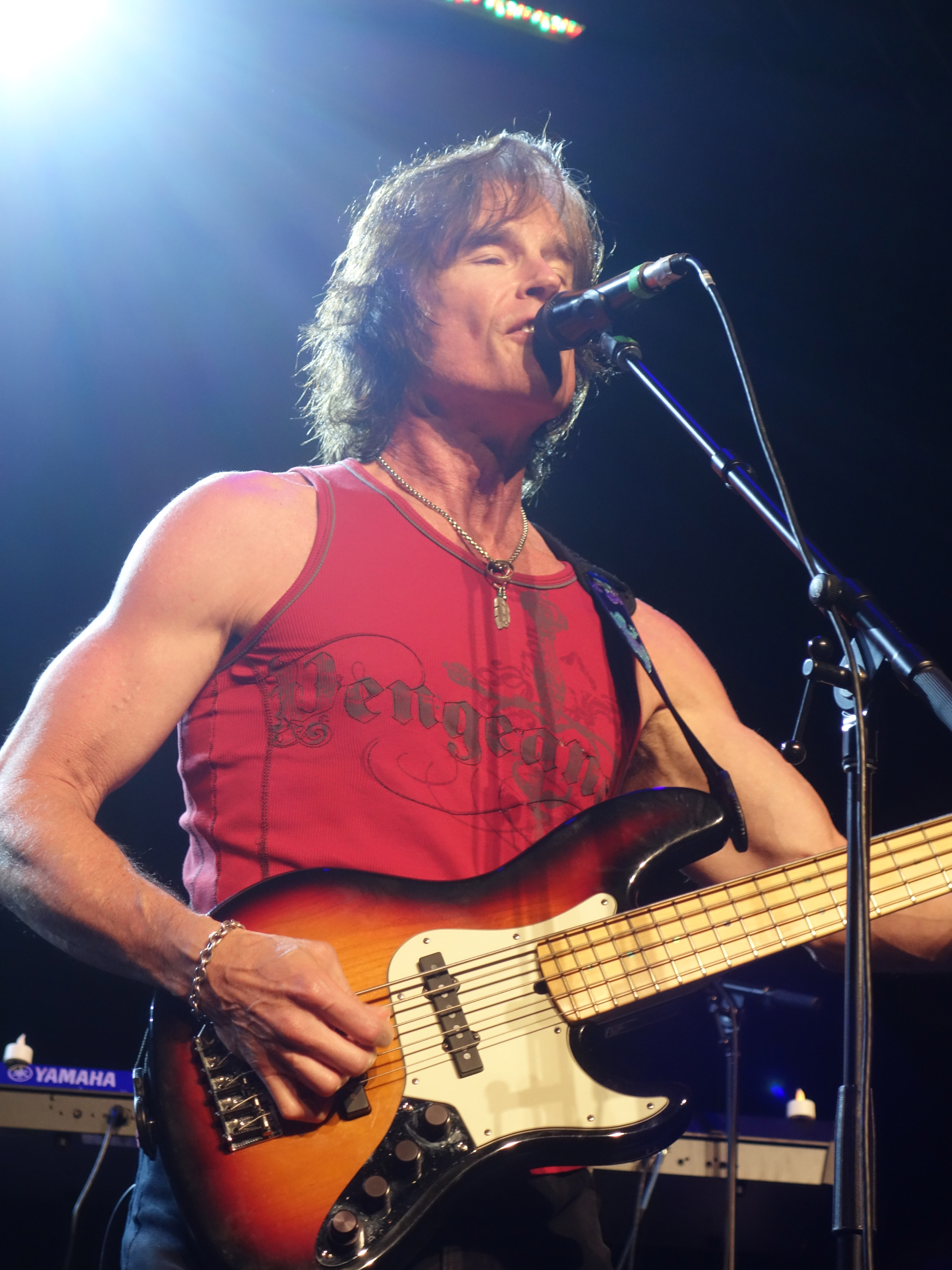 Ronn Moss in concert closeup